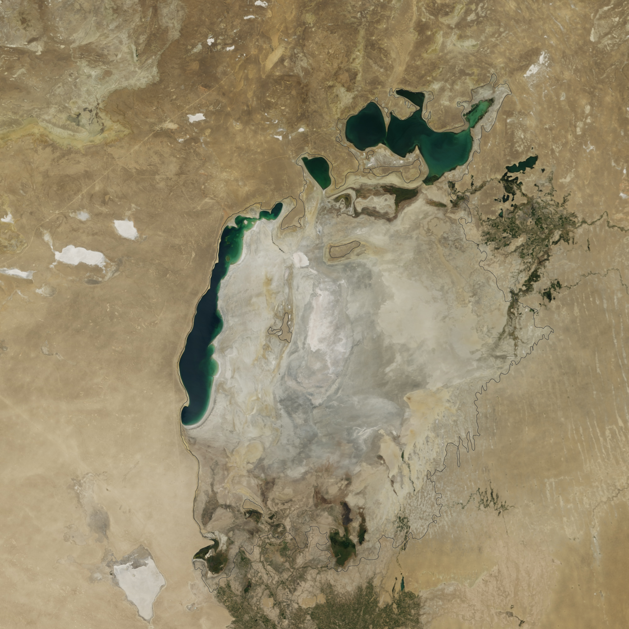 The remains of the Aral Sea on August 19, 2014